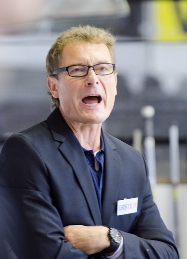 Dornbirn vs VSV in EBEL